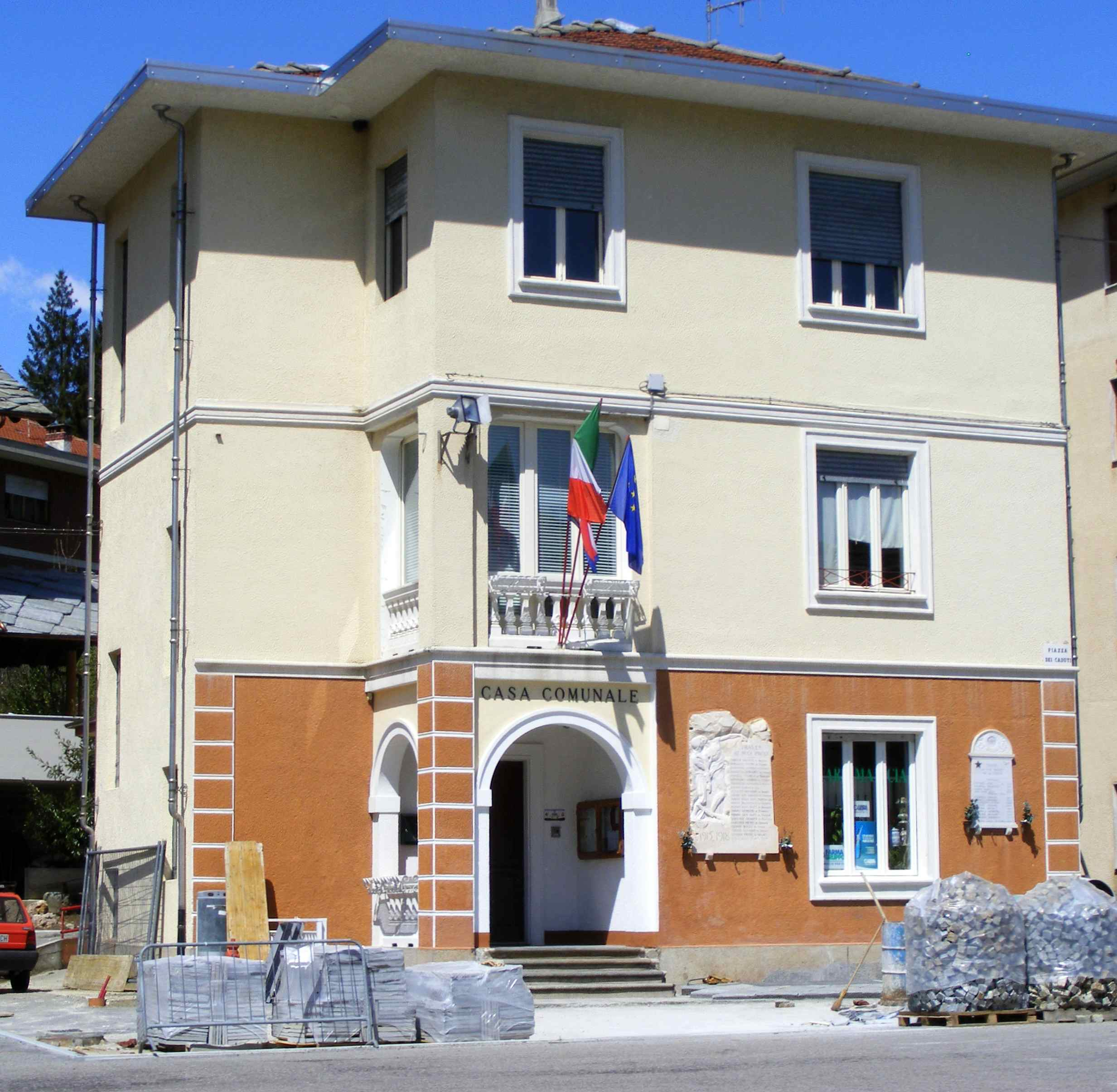 Traves (TO, Italy): town hall